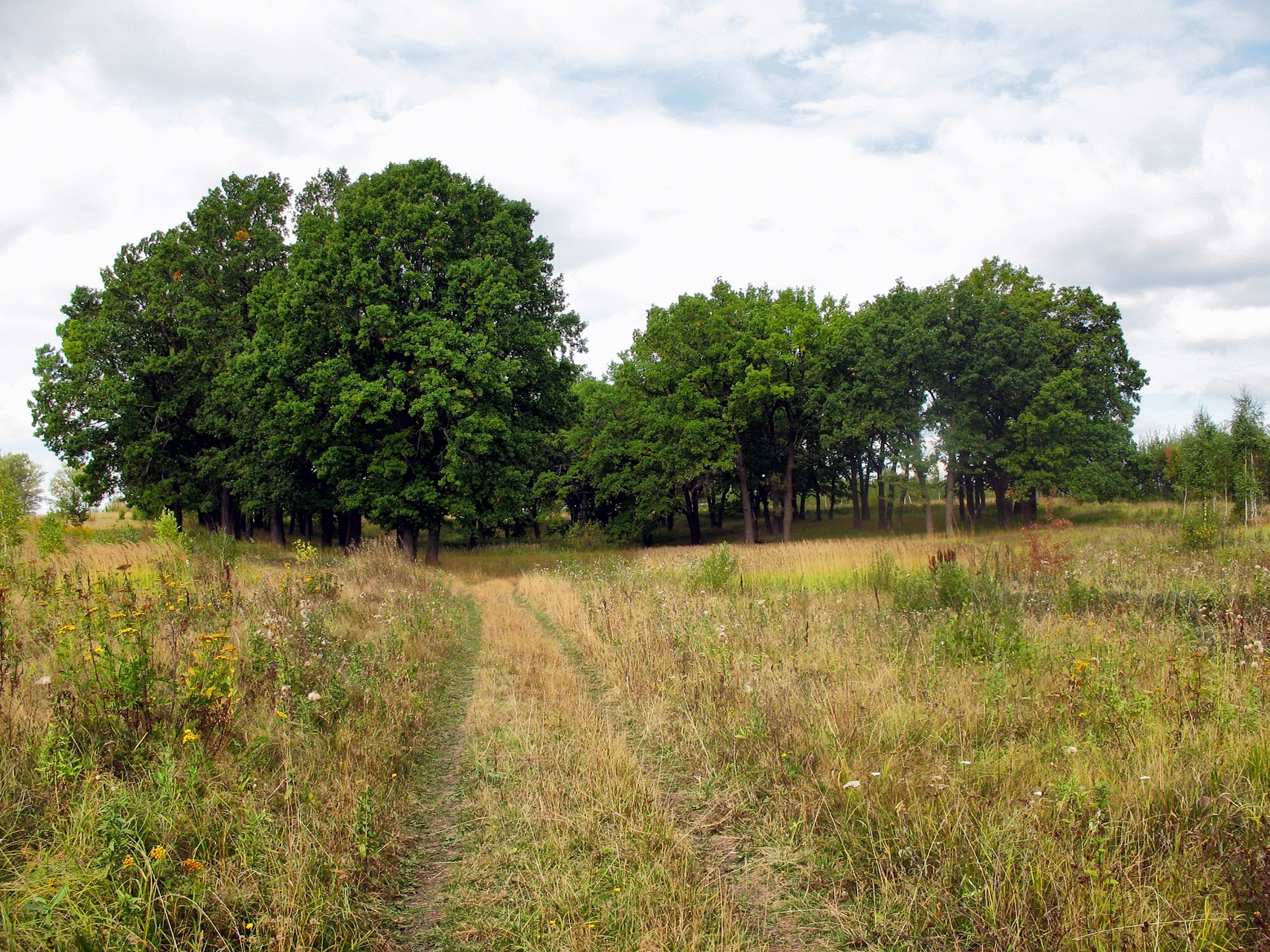 Tula region. Near Shchyokino